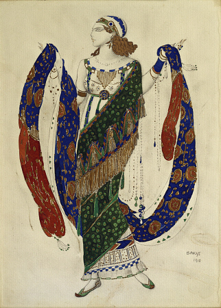 LEON BAKST "Costume Design for Cleopatra"